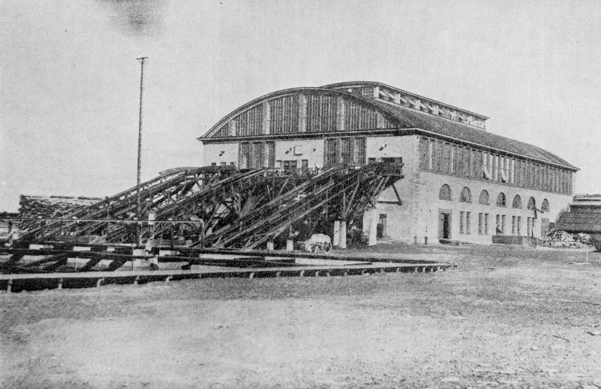 Karihaara sawmill in Kemi, Finland was designed by architect Wäinö G. Palmqvist and built between 1935-37.